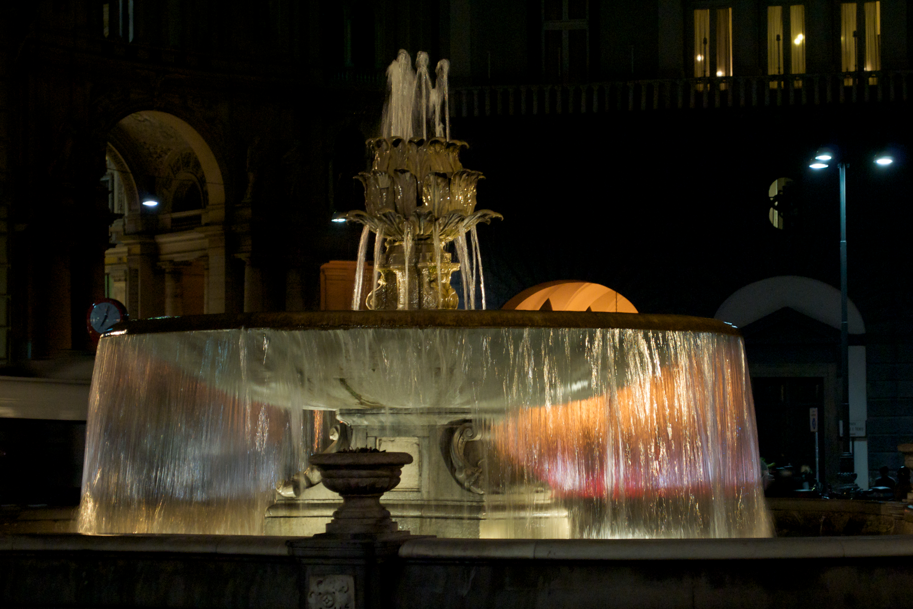 Fountain of Artichoke (night), Naples - Italy.